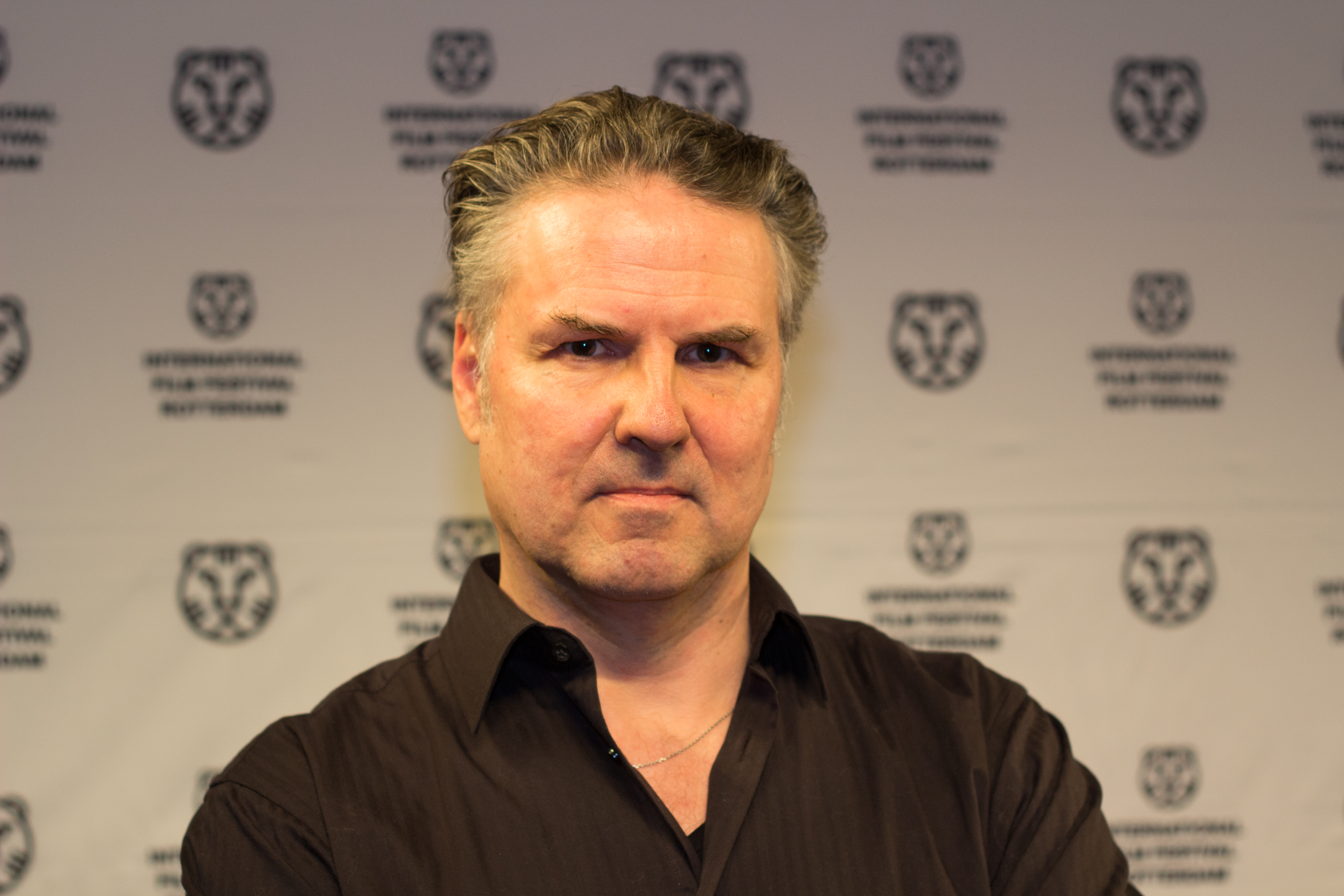 German Angst cast & crew (and friends) Directors Jörg Buttgereit, Michal Kosakowski, Andreas Marschall Production country & year Germany - 2015 Length 110 min Premiere World premiere Producer Michal Kosakowski, Andrea Staerke Screen play Anna Bonasso, Jörg Buttgereit, Andreas Marschall, Goran Mimica With Milton Welsh, Daniel Faust, Denis Lyons, Annika Strauss, Matthan Harris, Andreas Pape, Desiree Giorgetti Camera Sven Jakob Editor Michal Kosakowski, Andreas Marschall Production design Jörg Möhring Sound design Dieter Hebben, Lukas Lücke Medium DCP Website